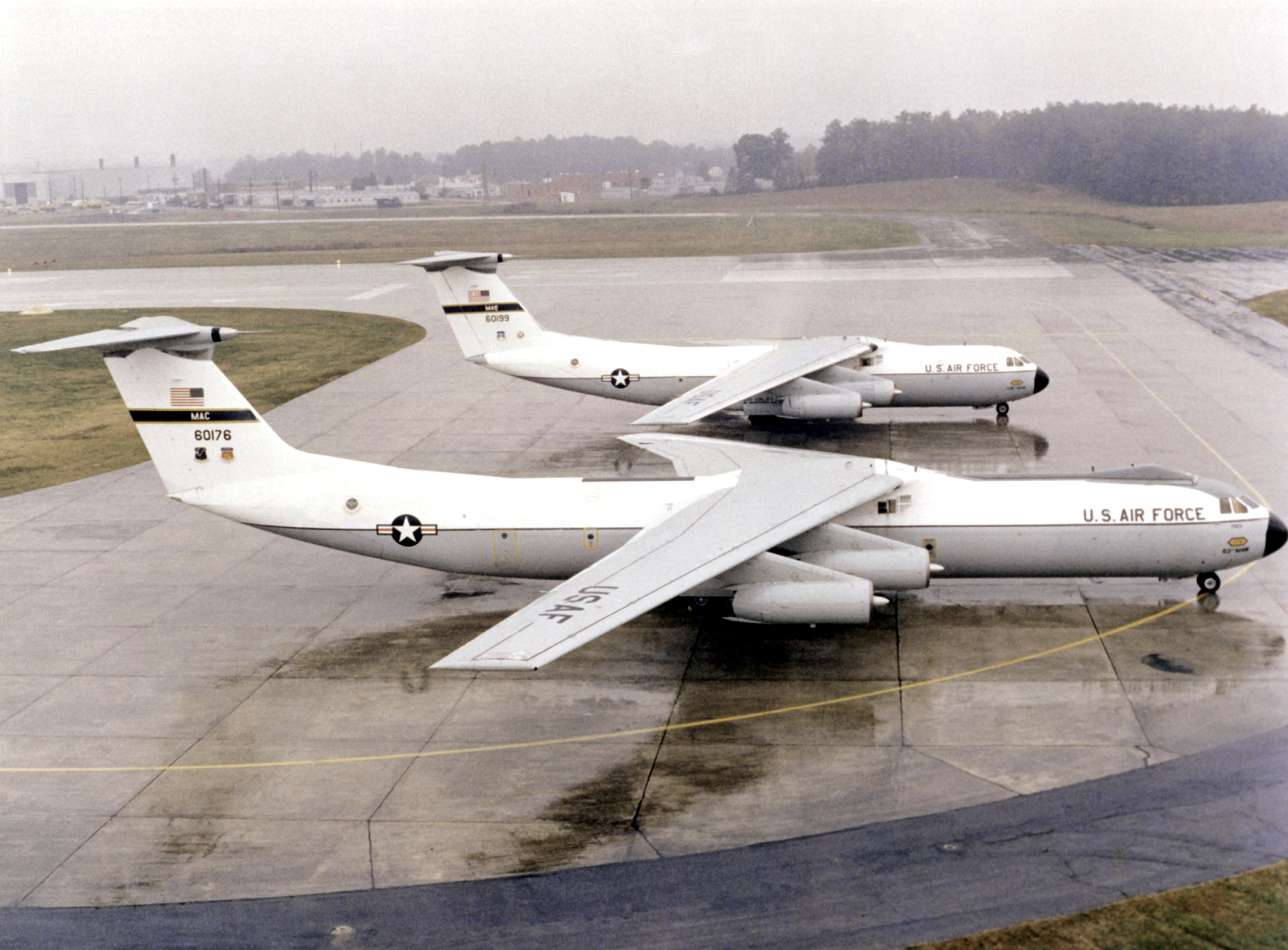 Parked U.S. Air Force Lockheed C-141A (background) and a C-141B Starlifter aircraft on 1 June 1980. All 270 C-141As were lengthened by 7.1 m between 1977 and 1982 and were redesignated C-141B.